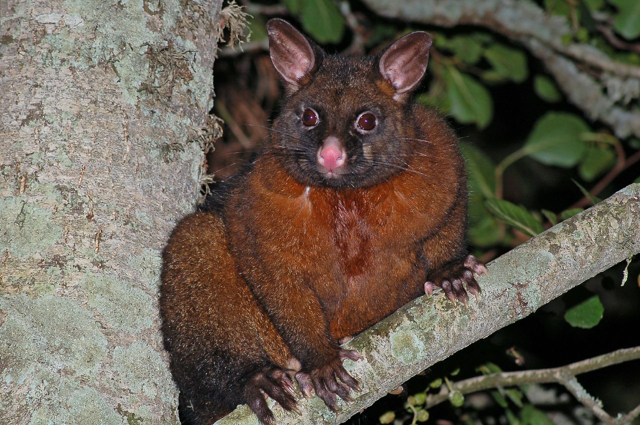 Brushtail Possum Trichosurus vulpecula Note: Author requires attribution by footnote if used on Wikipedia, footnote to link to his flickr page. Suggested use